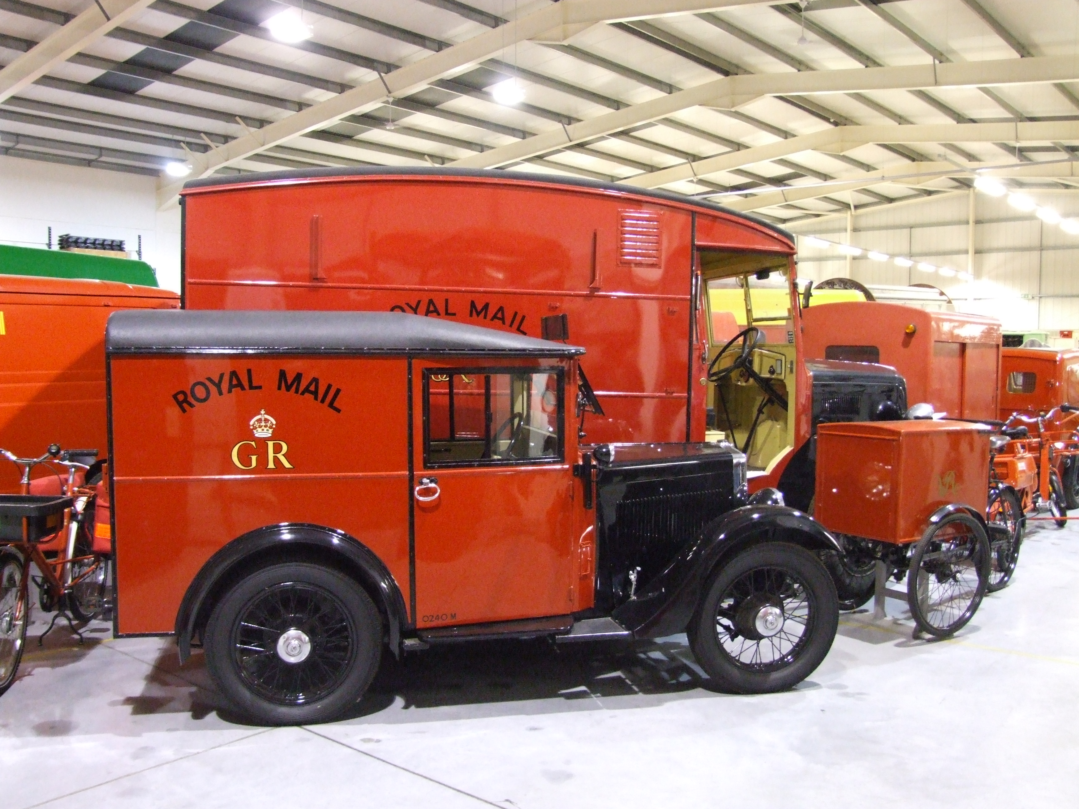 Morris Minor M8 Post Office van. The Post Office bought its first batch of Morris Minors in 1932, having previously tried vehicles made by Ford, GWK and Trojan. Before that, motorcycle combinations had been widely used to deliver small volumes of mail in both rural areas and towns. In the early 1930s, the Post Office responded to suggestions from its postmen to move away from motorcycle combinations and supply vans that gave them greater comfort and weather protection. The small Morris vans proved to be very suitable for mail duties, particularly in rural locations. Many of the scattered village post offices were provided with a Morris van. The Postman Driver was responsible for the cleanliness and general upkeep of his vehicle, which would only be returned to the main office for regular servicing. The van\'s greater load carrying capacity meant that a switch from the motorcycle combination in favour of the Morris Minor was inevitable. Soon Morris Minors dominated the mail distribution fleet. Between 1932 and 1940, over 3,500 of these vans were supplied for postal duties with about the same number also supplied for use by Post Office Telephones. This vehicle dates from 1935. Collection ID OB1995.329.